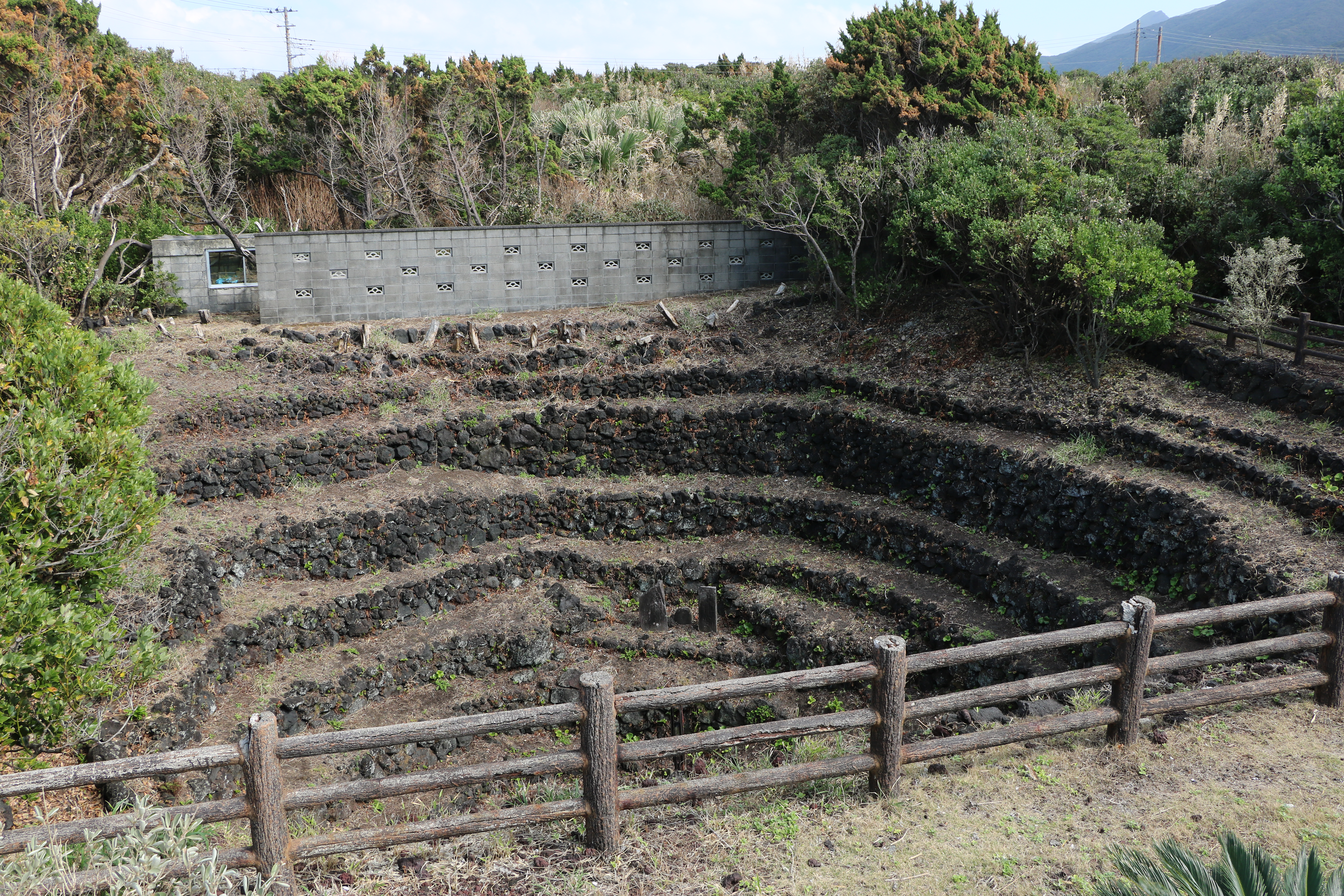 Yaene spirral well